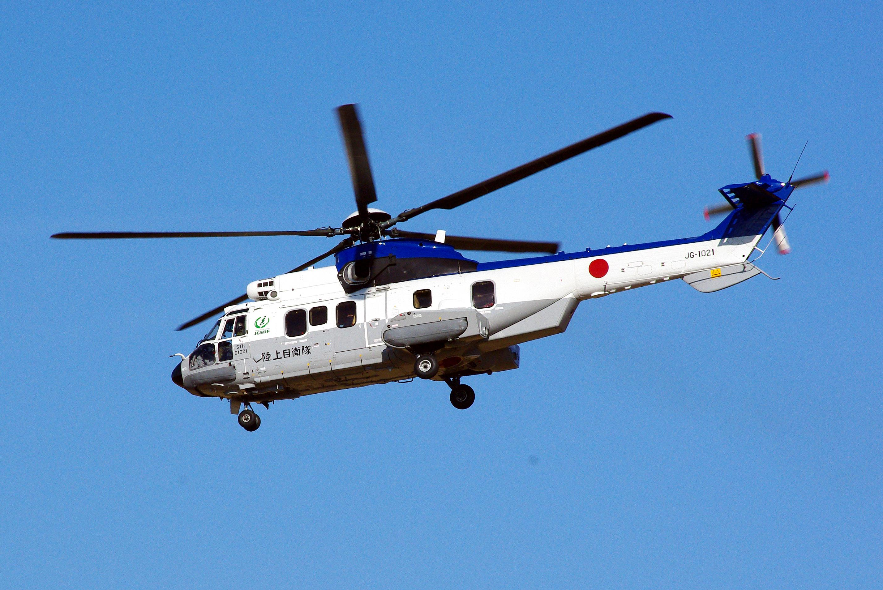 JGSDF Eurocopter EC 225.Taken by Los688,in Narashino,Japan,at 08-Jan-2012,JGSDF 1st Airborne Brigade 2012 first drop manuver.PD-self ユーロコプターEC225 2012年01月08日、第1ヘリコプター団特別輸送ヘリコプター隊、VIP輸送用、習志野演習場で撮影。